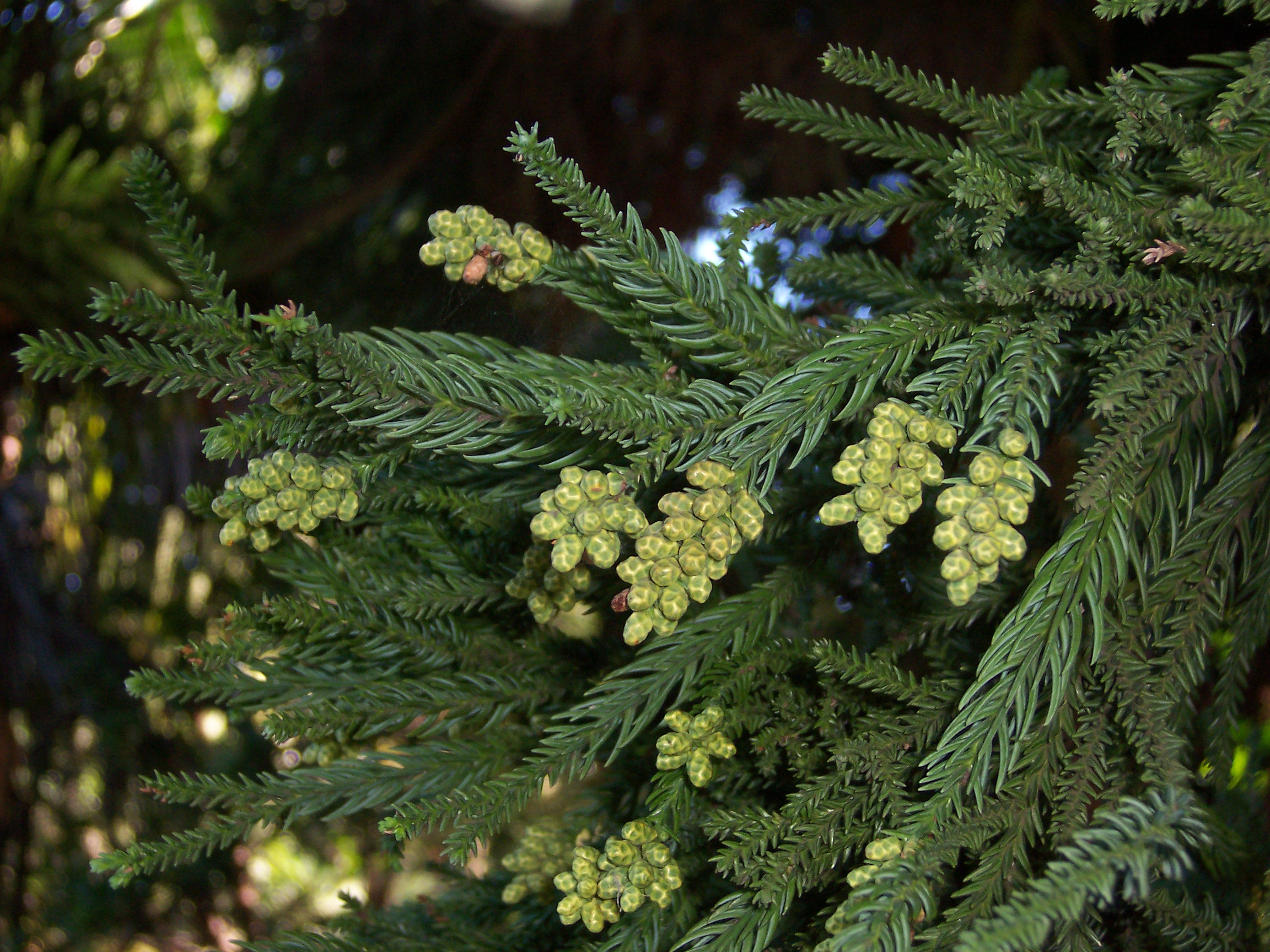 Cryptomeria japonica male flowers (Réunion island)